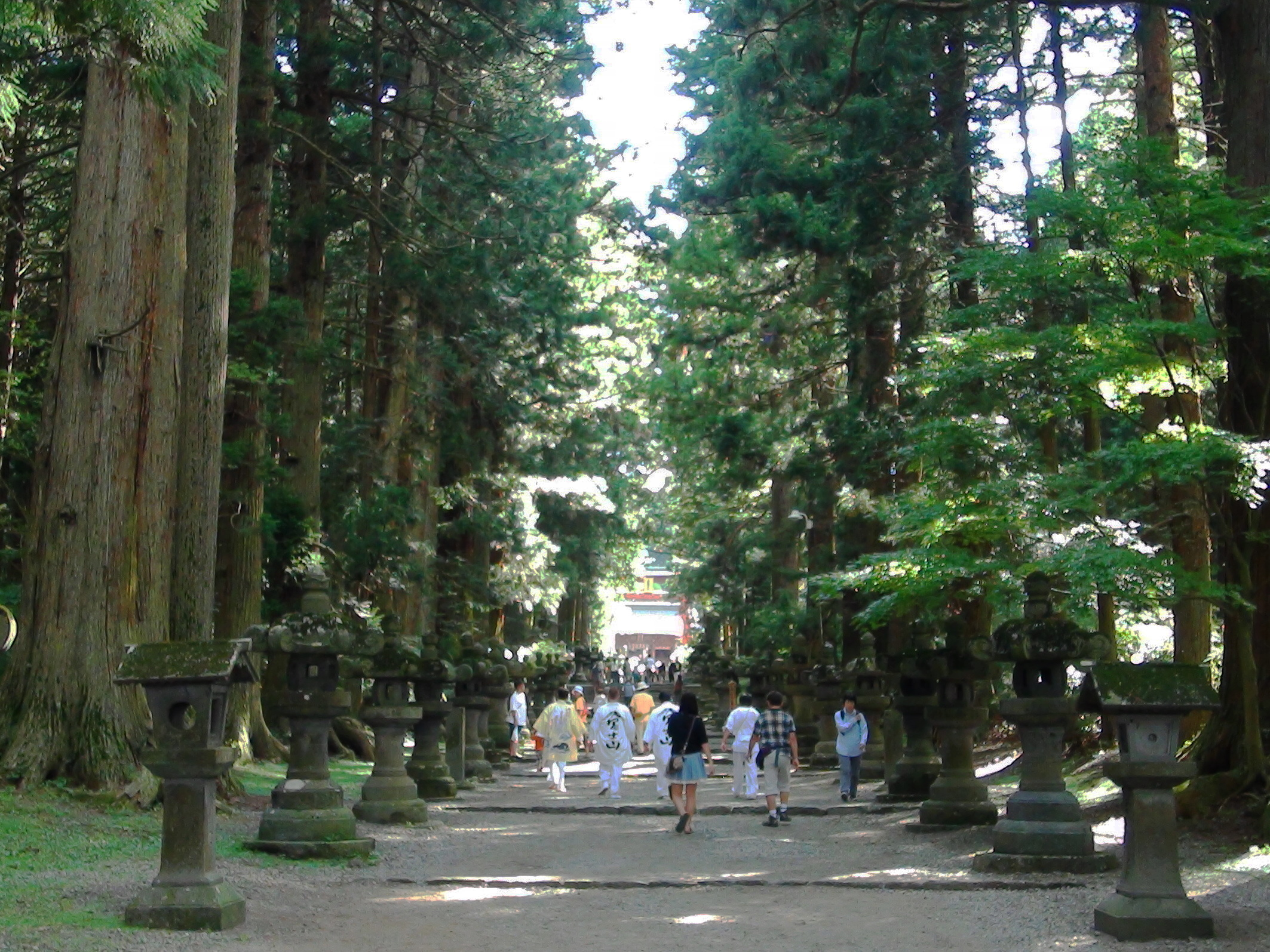 Monks walk through the approach of Northern Fuji Sengen Shrine